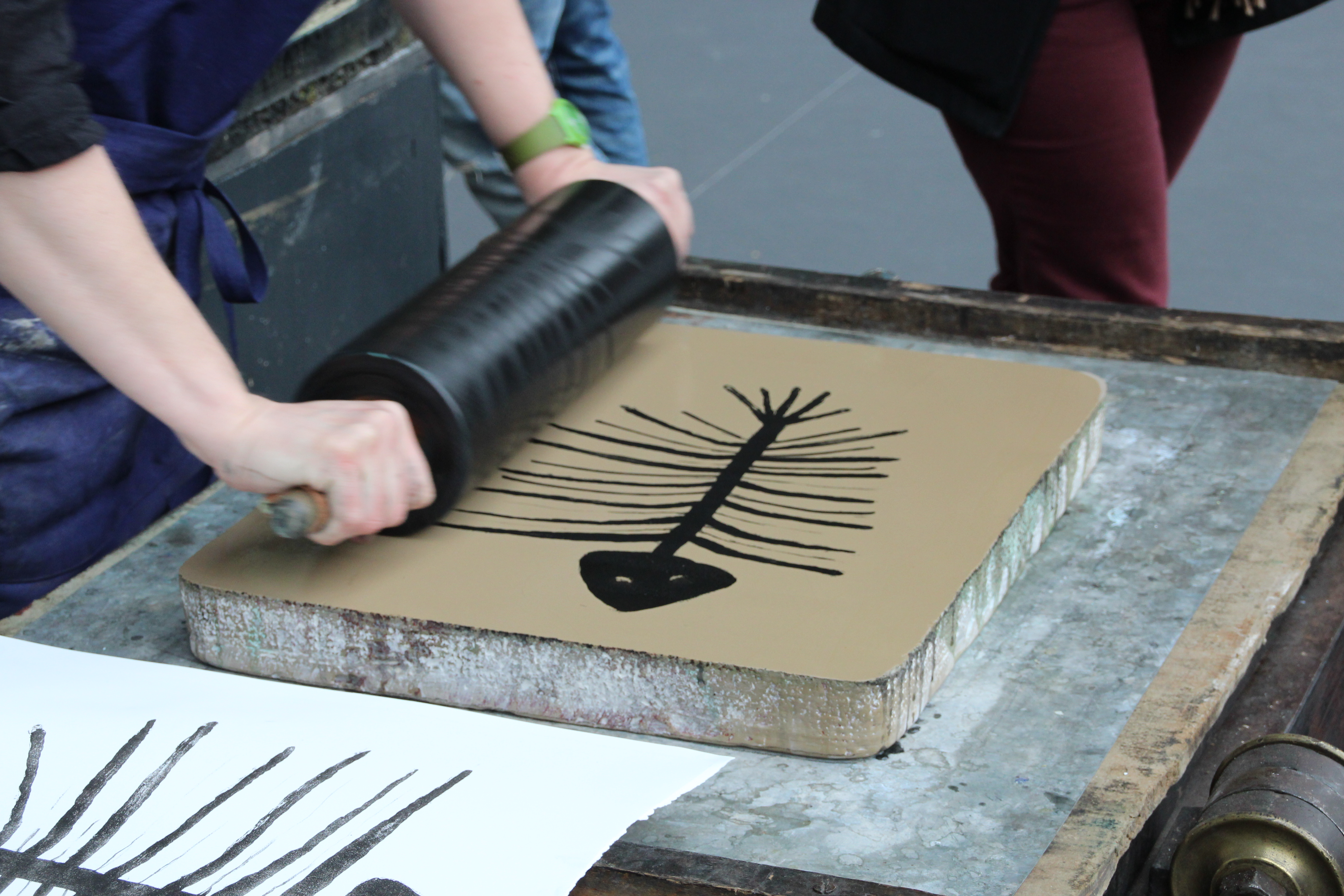 Antiquarian book and print fair in 2013 at the Grand Palais in Paris, France.